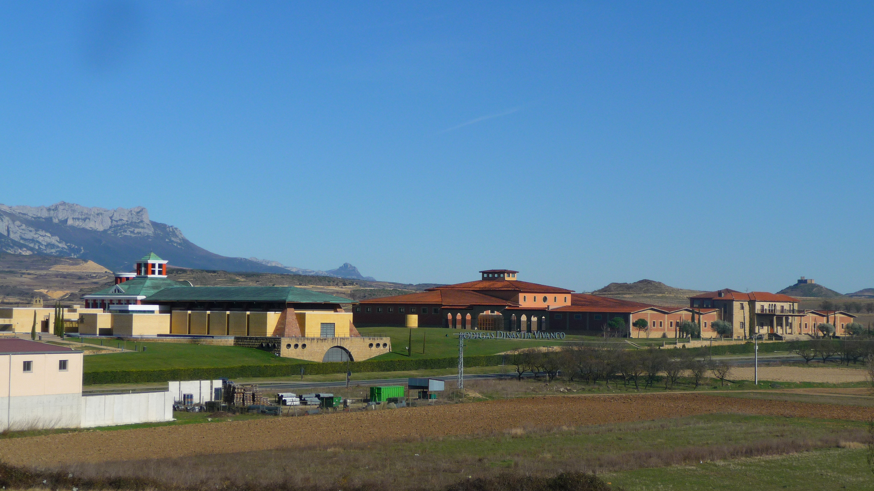 The Dinastía Vivanco winery and museum in Briones, La Rioja (Spain)